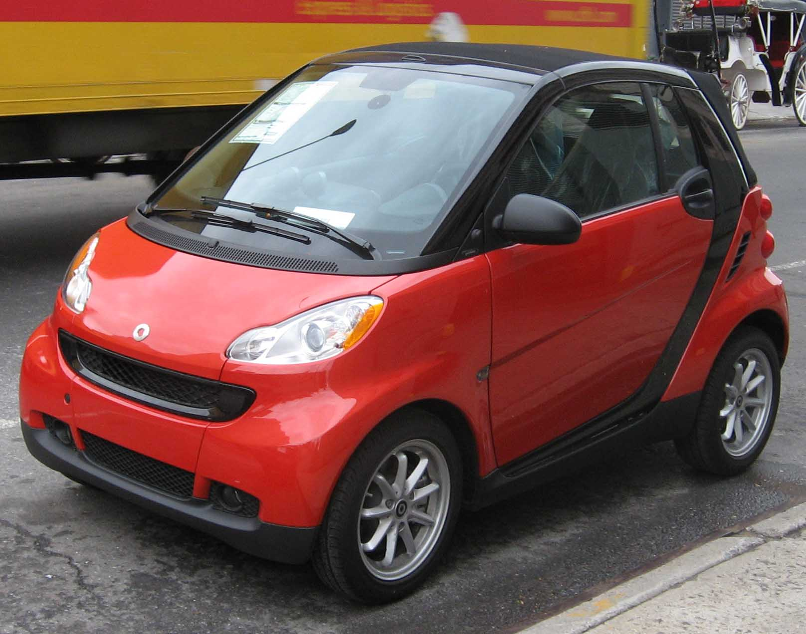 2008 Smart ForTwo photographed in New York City, USA.